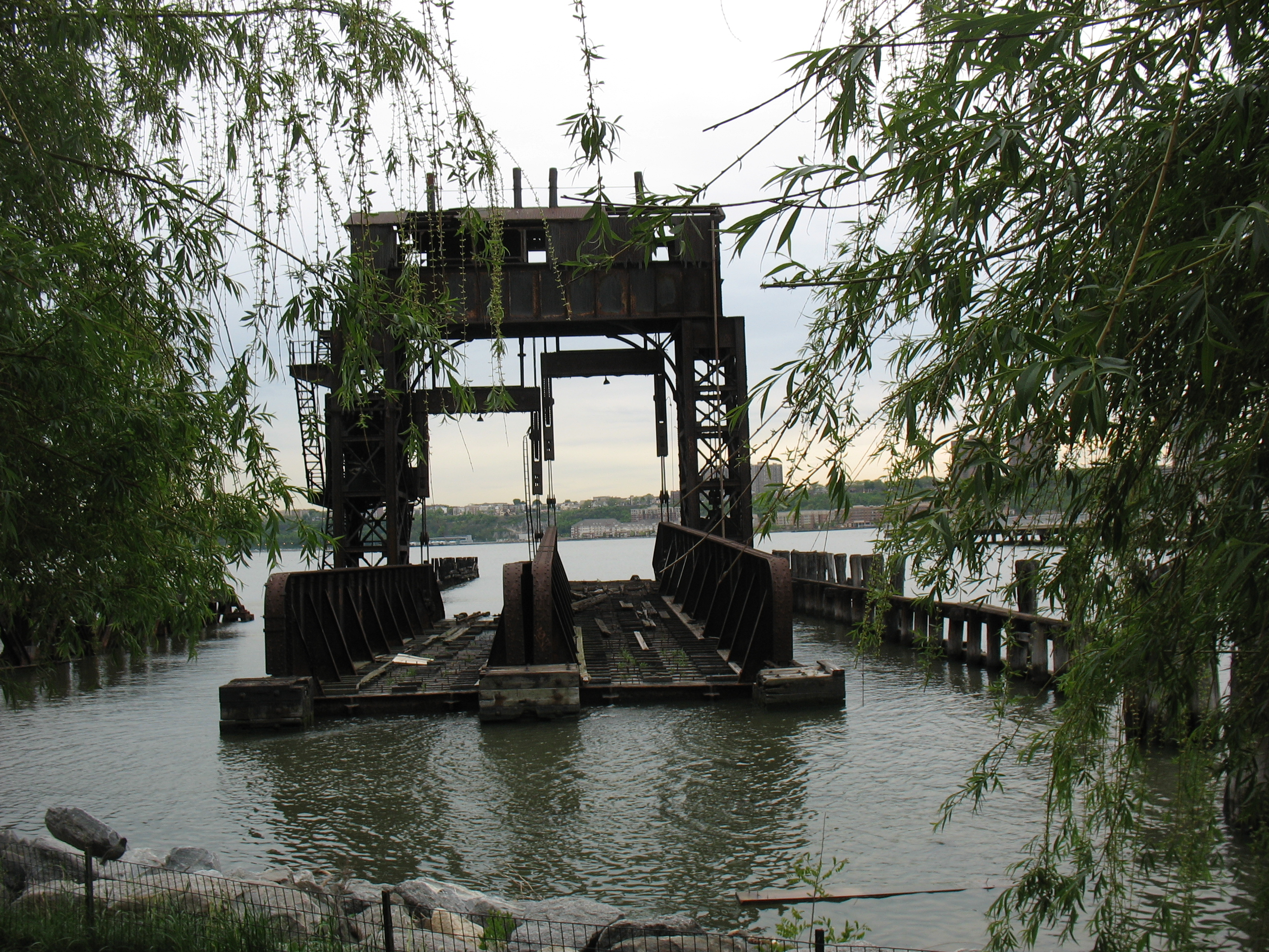 New York Central Railroad 69th Street Transfer Bridge was a ferry transferring freight traffic across the Hudson. It was placed on National Register of Historic Places in 2003.